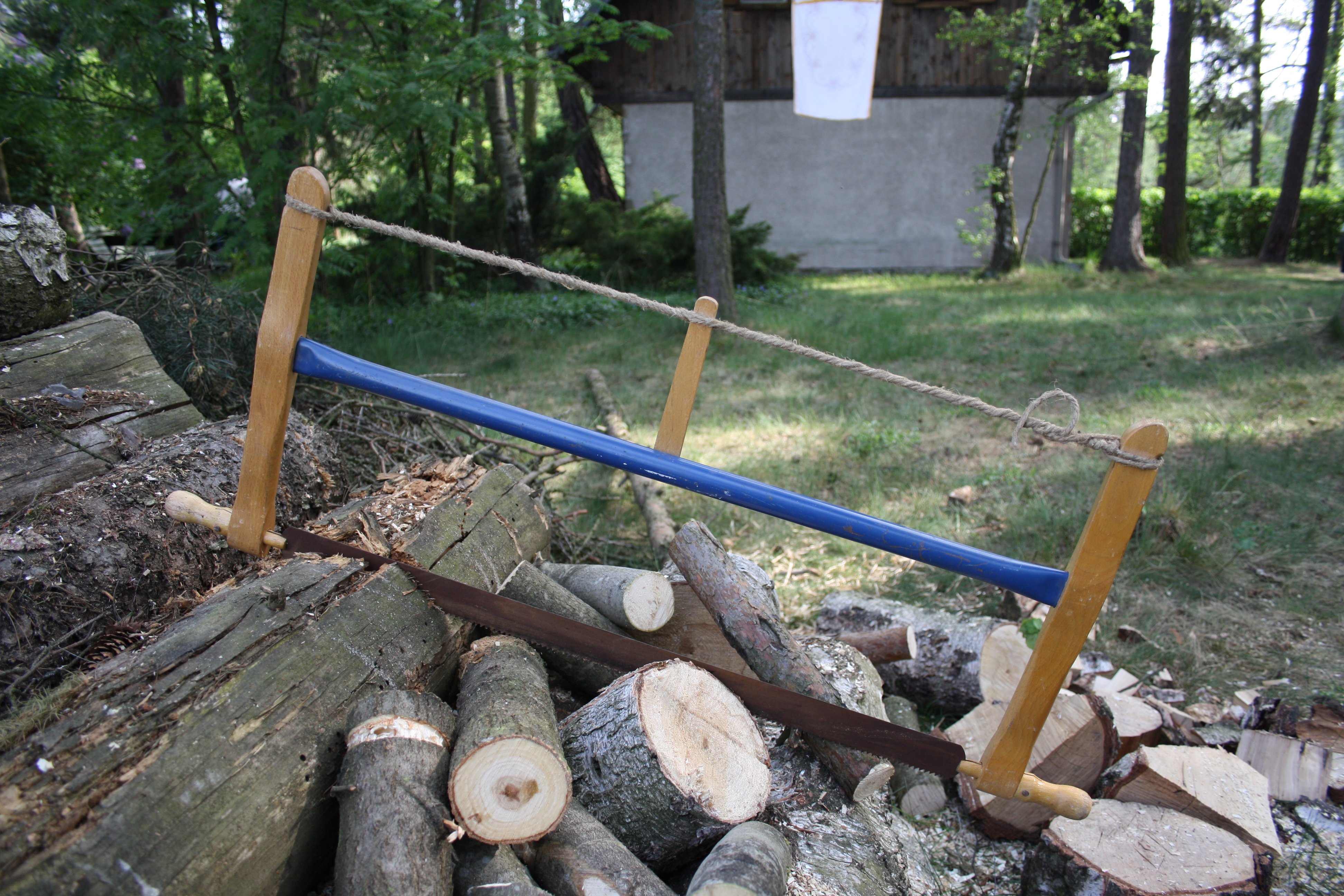 Wood carpenter's saw in Czech Republic.